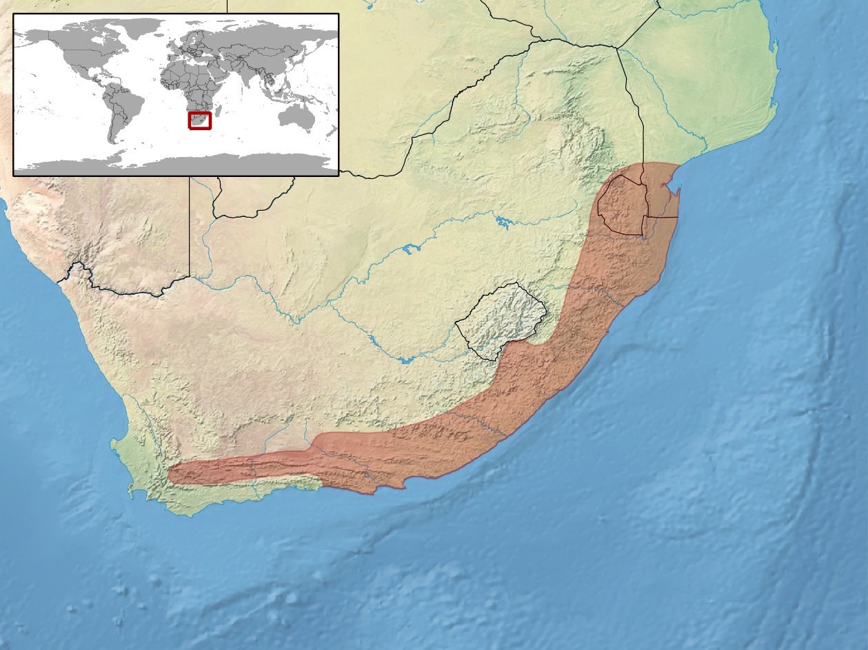 geographic distribution of Pachydactylus maculatus (Native: Mozambique; South Africa (Eastern Cape Province, KwaZulu-Natal, Mpumalanga, Northern Cape Province); Swaziland)